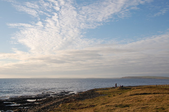 Point of Ayre Looking SW from the headland, to a succession of other headlands. Nice clouds.